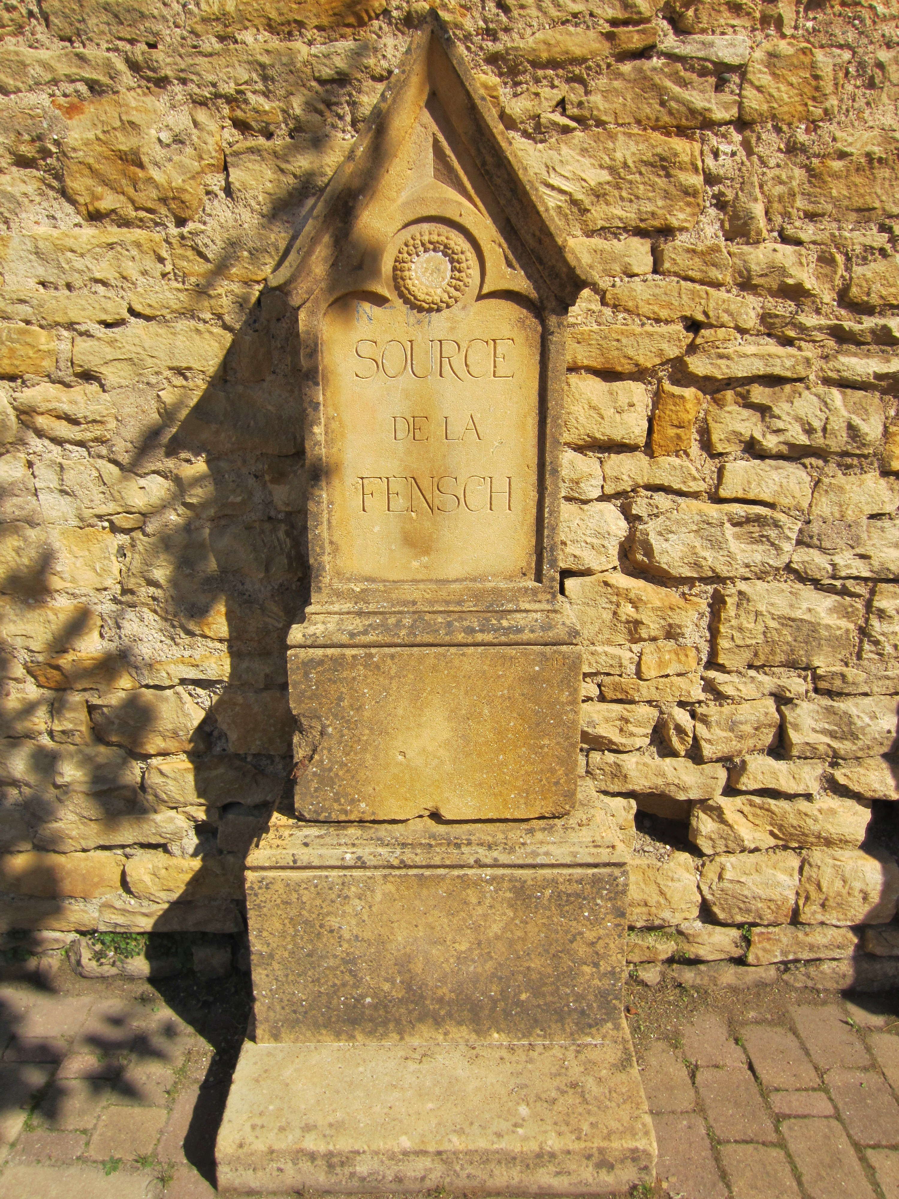 Description source de la Fensch Fontoy Date3 September 2011Sourcemon appareil photoAuthorAimelaimePermission (Reusing this file) source de la Fensch Fontoy